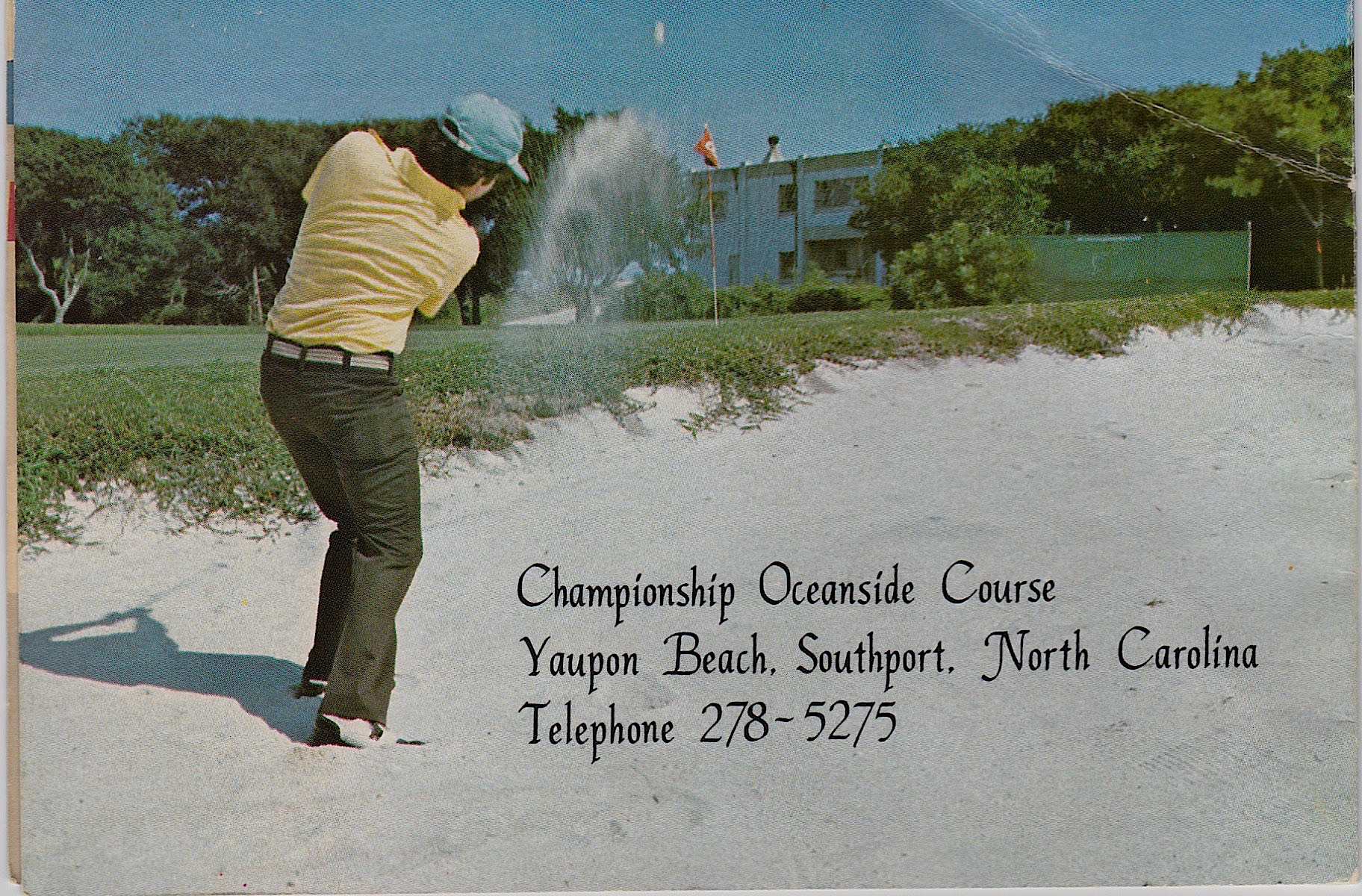 Photo of scorecard cover showing old clubhouse and bunker near the 18th Green.